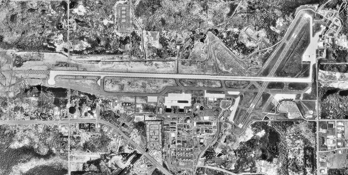 Aerial image of Duluth Airport, Minnesota